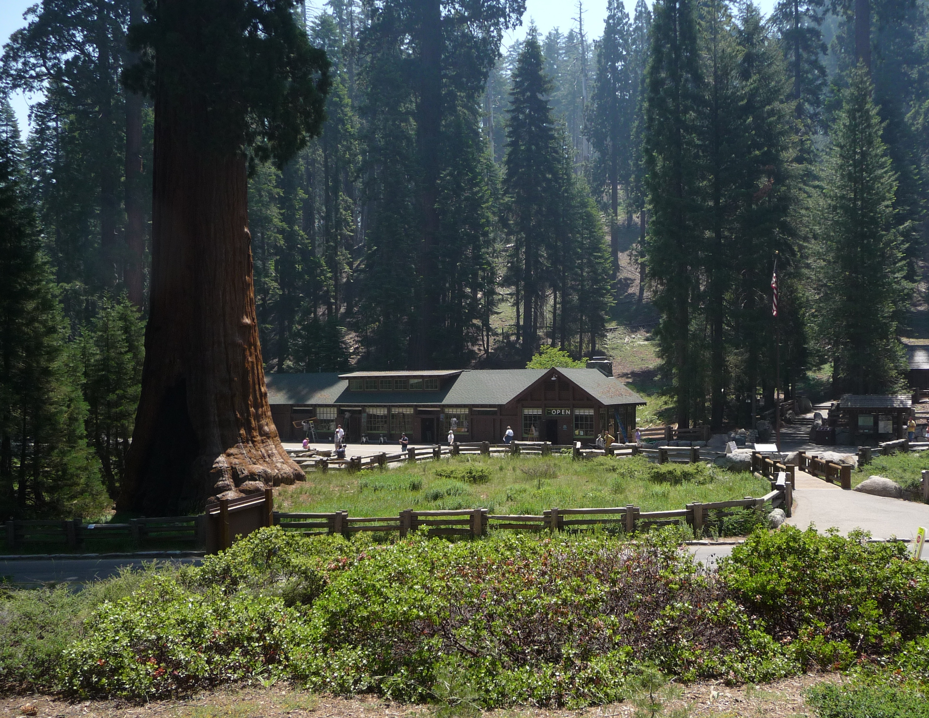 Sequoia National Park - Giant Forest Museum